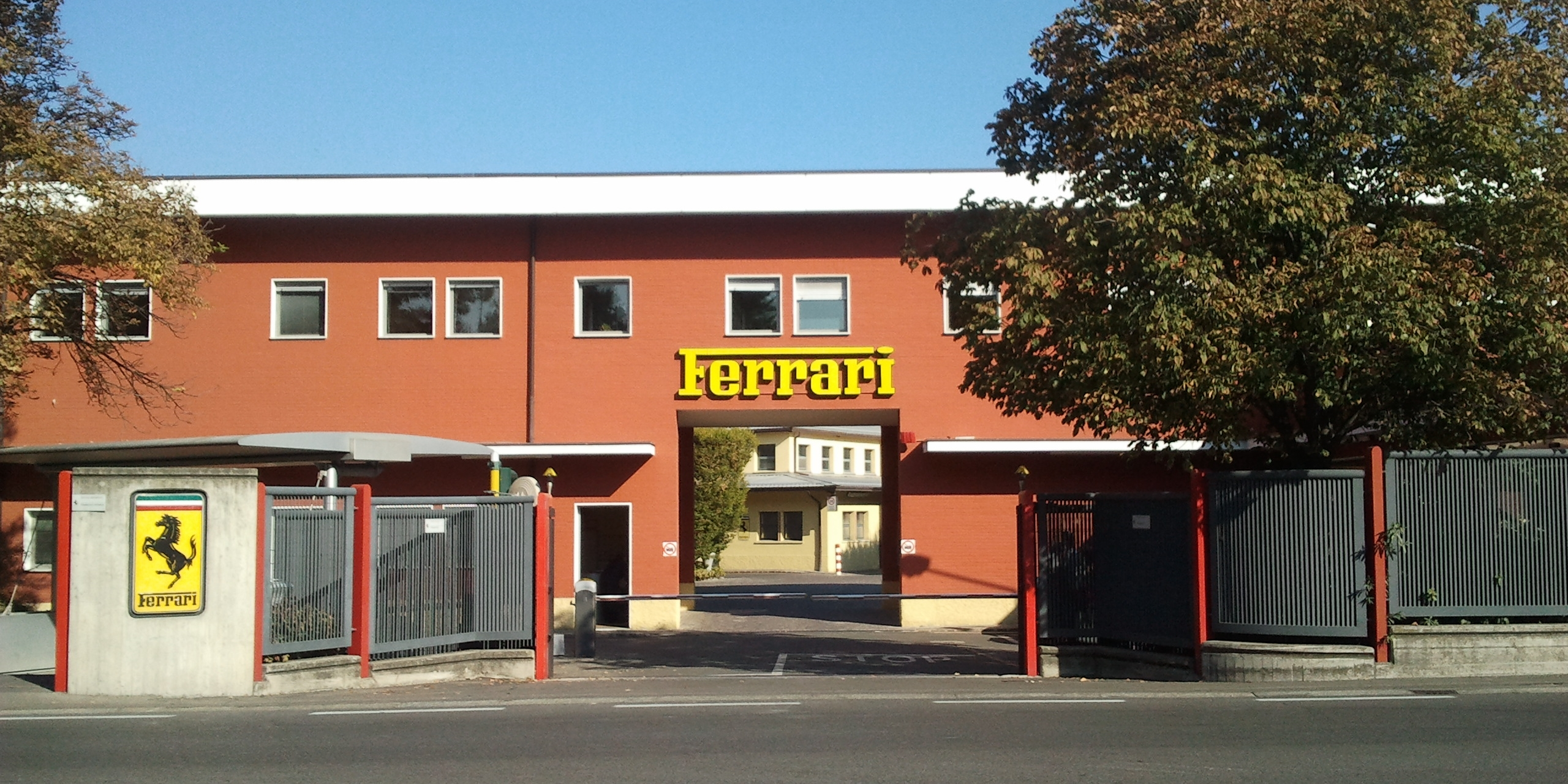 Ferrari facility (West entry). Maranello. Italy